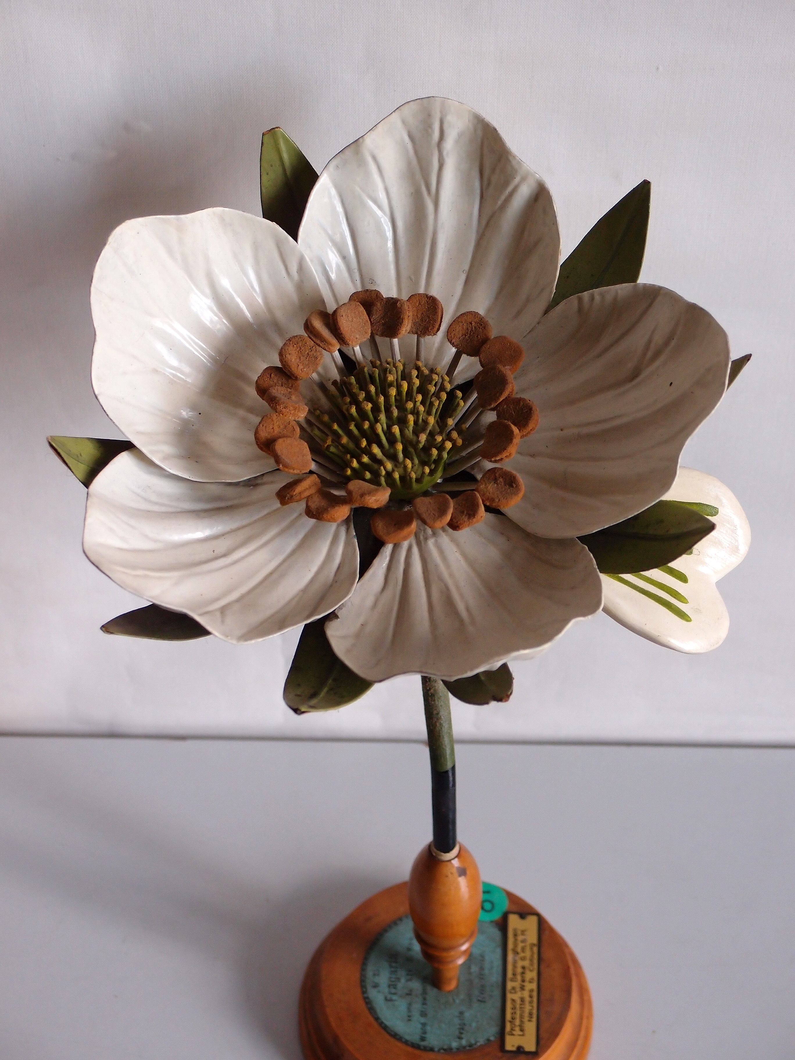 Model from the collection of the Botanical Museum in Greifswald, Germany. . see also for more information on the models